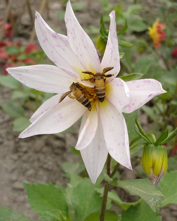 Apis dorsata on a dahlia flower